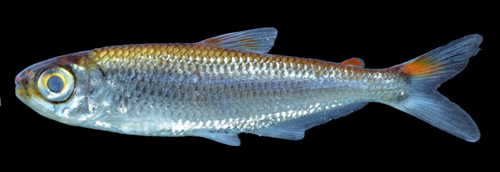 Bryconops caudomaculatus GUY14-29 45mm